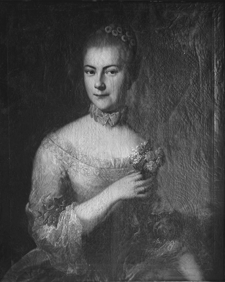 Caroline of Waldeck and Pyrmont (1748-1782), duchess of Courland and Semigallia as the first wife of Peter von Biron